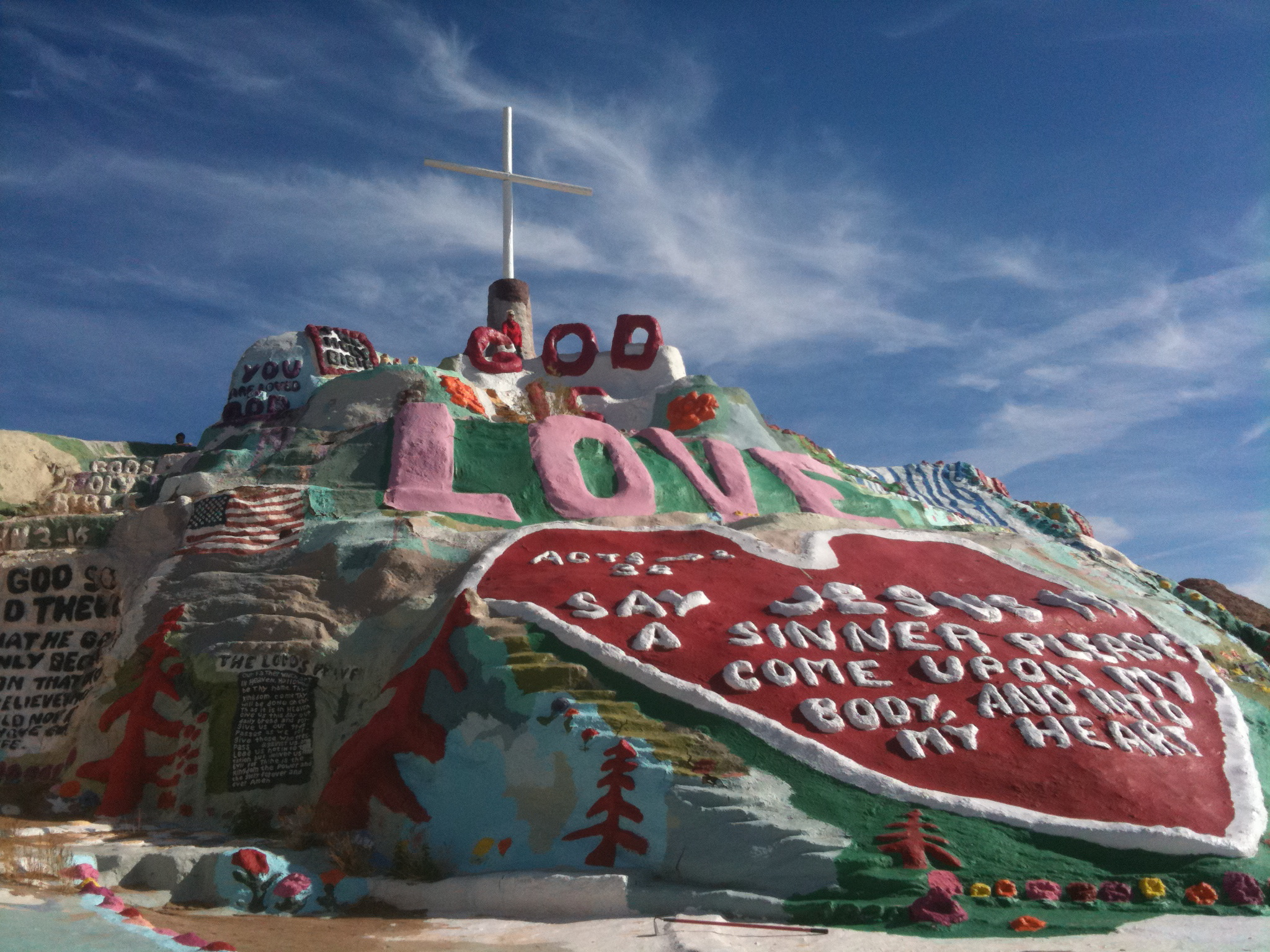 Salvation Mountain, near the Salton Sea, California - Dec. 2010